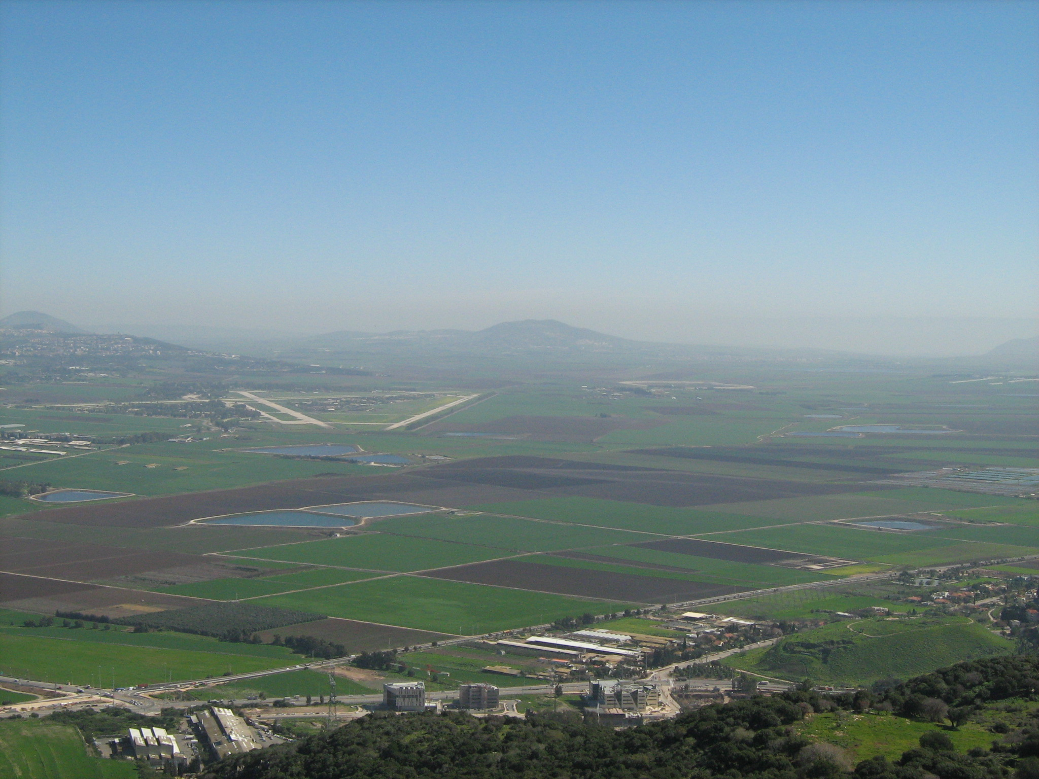 המראה מגג המנזר בקרן הכרמל, on the left, faraway is Migdal Haemek and behind it is the Tavor. On the extreme right, faraway is the Gilboa. In the middle is Givet Hamore.